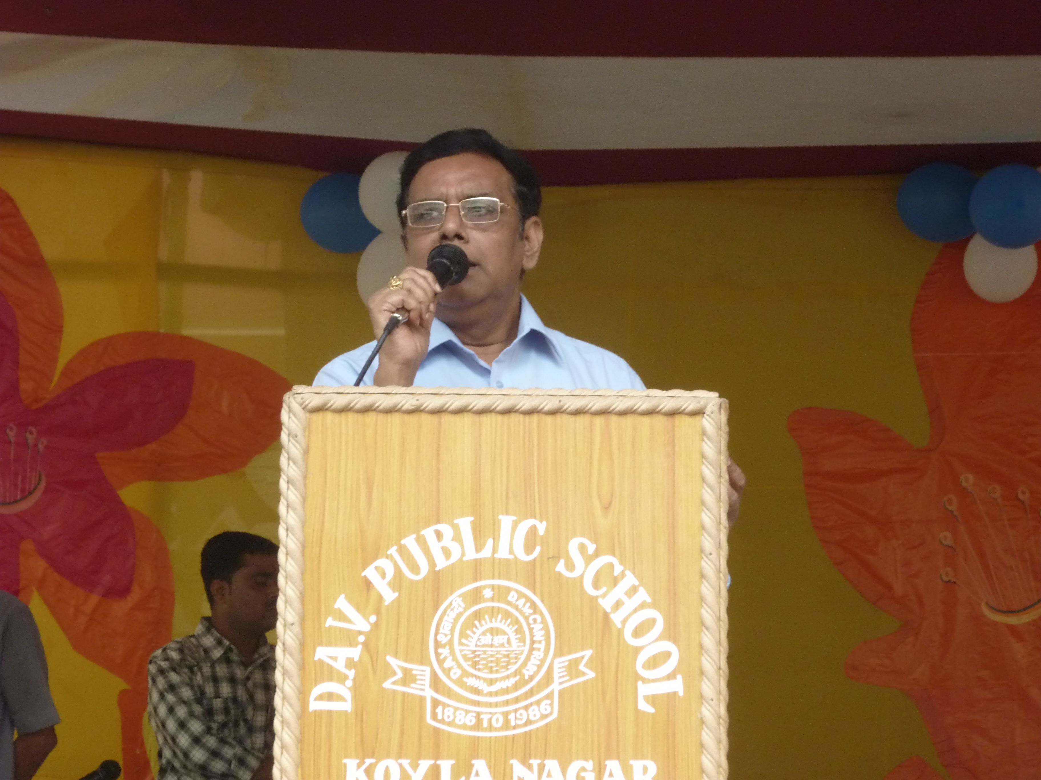 Principal DAV KOYLA NAGAR DHANBAD Dr K C Srivastava